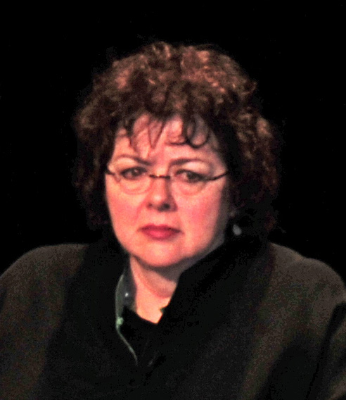 Laurie Garrett during the Q&A period at the end of the first session on the morning of Day 3 of PopTech.